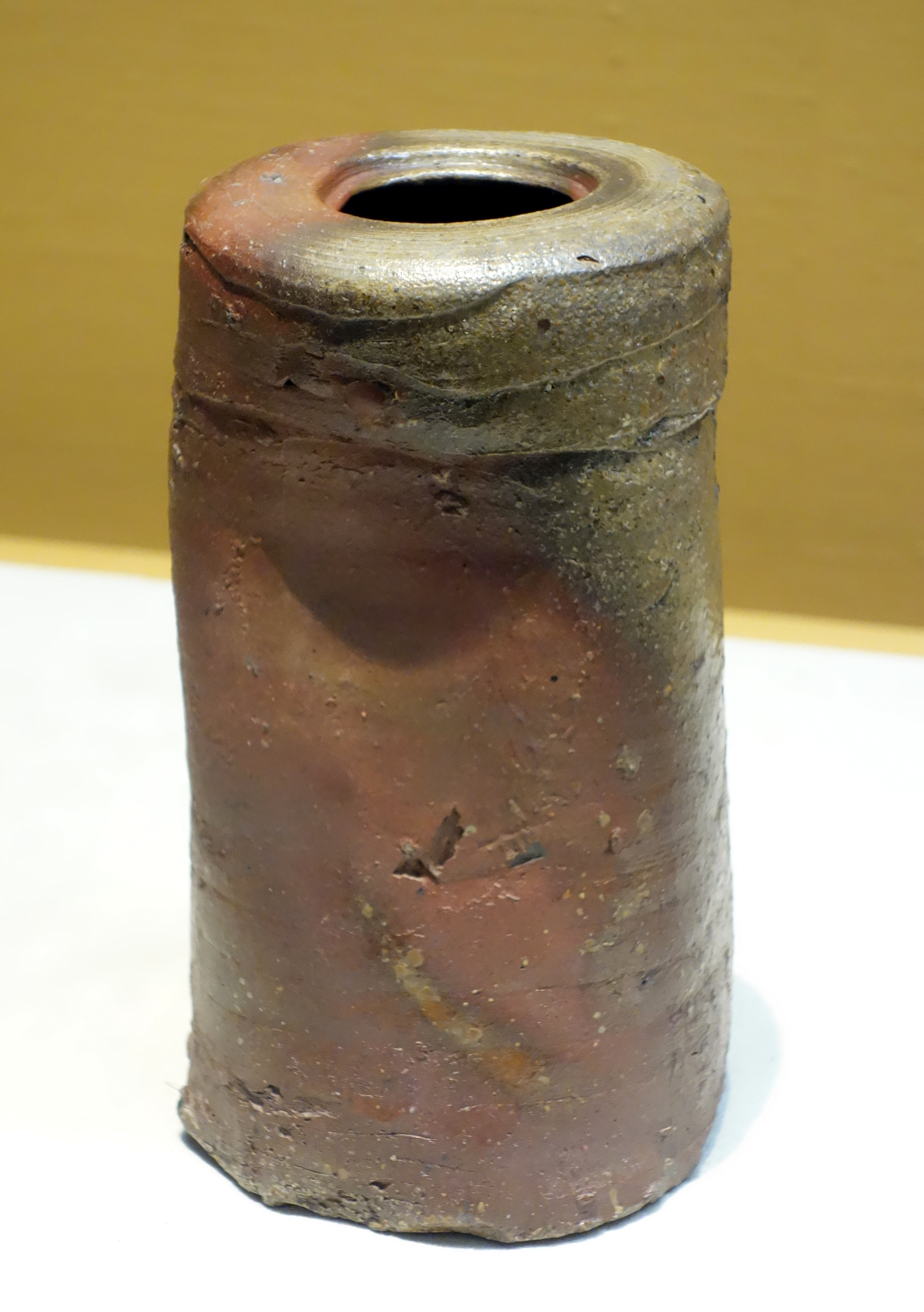 Exhibit in the Tokyo National Museum, Tokyo, Japan. This artwork is old enough so that it is in the public domain.